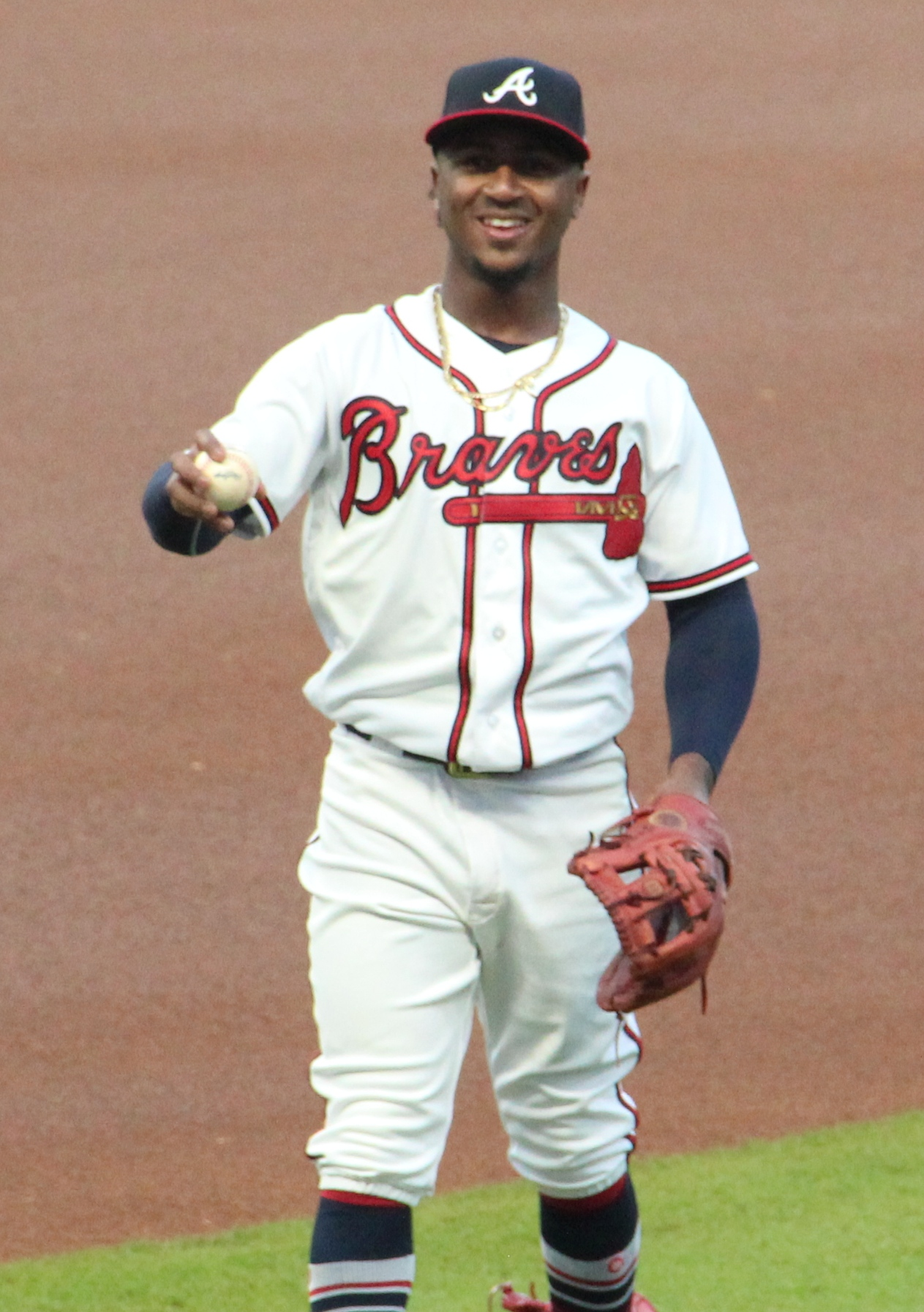 Ozzie Albies